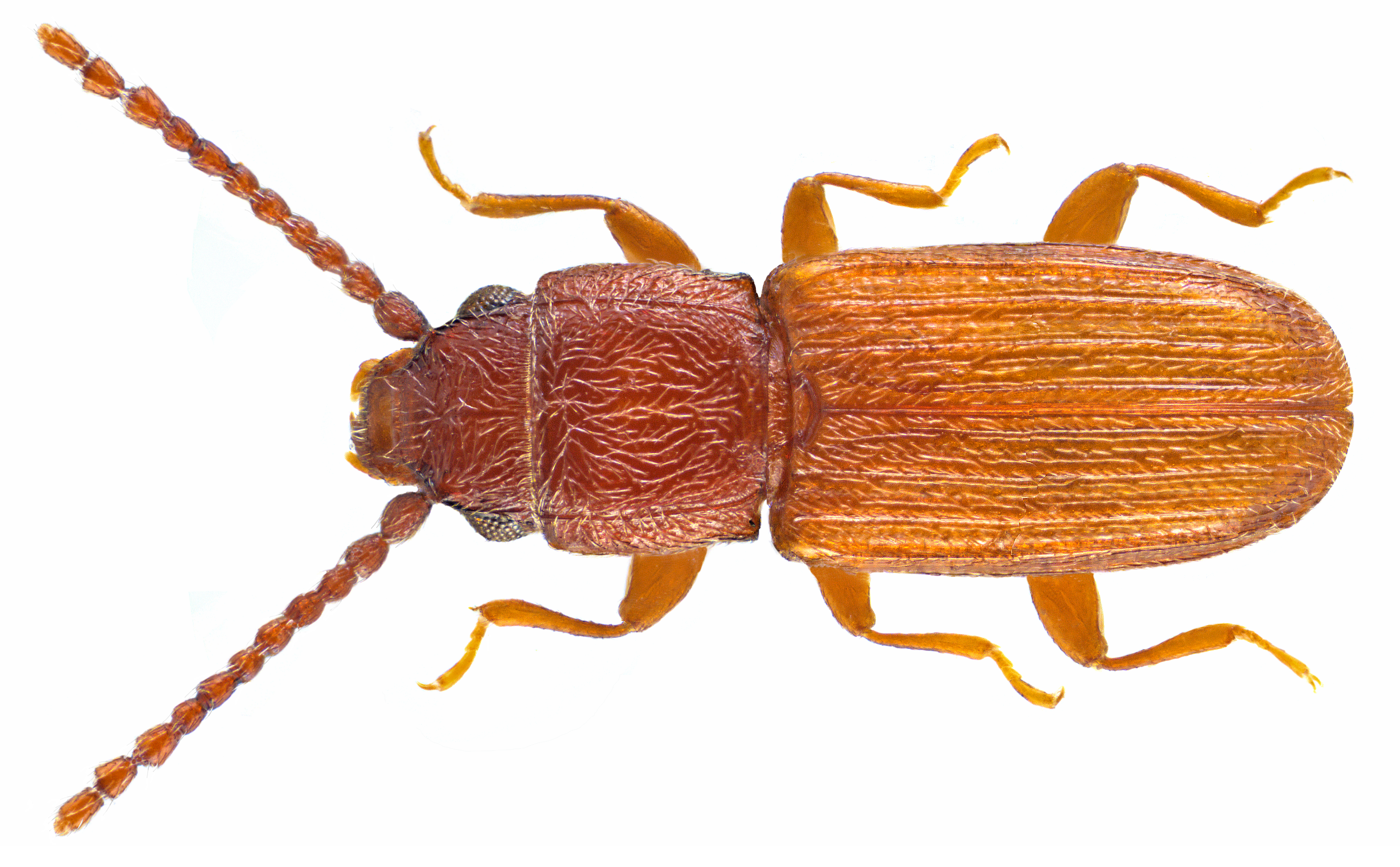 Family: Laemophloeidae Size: 1,7 mm (1,4-1,7 mm) Origin: tropical countries, worldwide spread through food Ecology: synanthropic, food pest Location: Germany, Rheinland-Pfalz, Ahrweiler, Alteheck leg. Karner, 25.V.1987; det. J.Schoenfeld, 2002 Photo: U.Schmidt, 2013